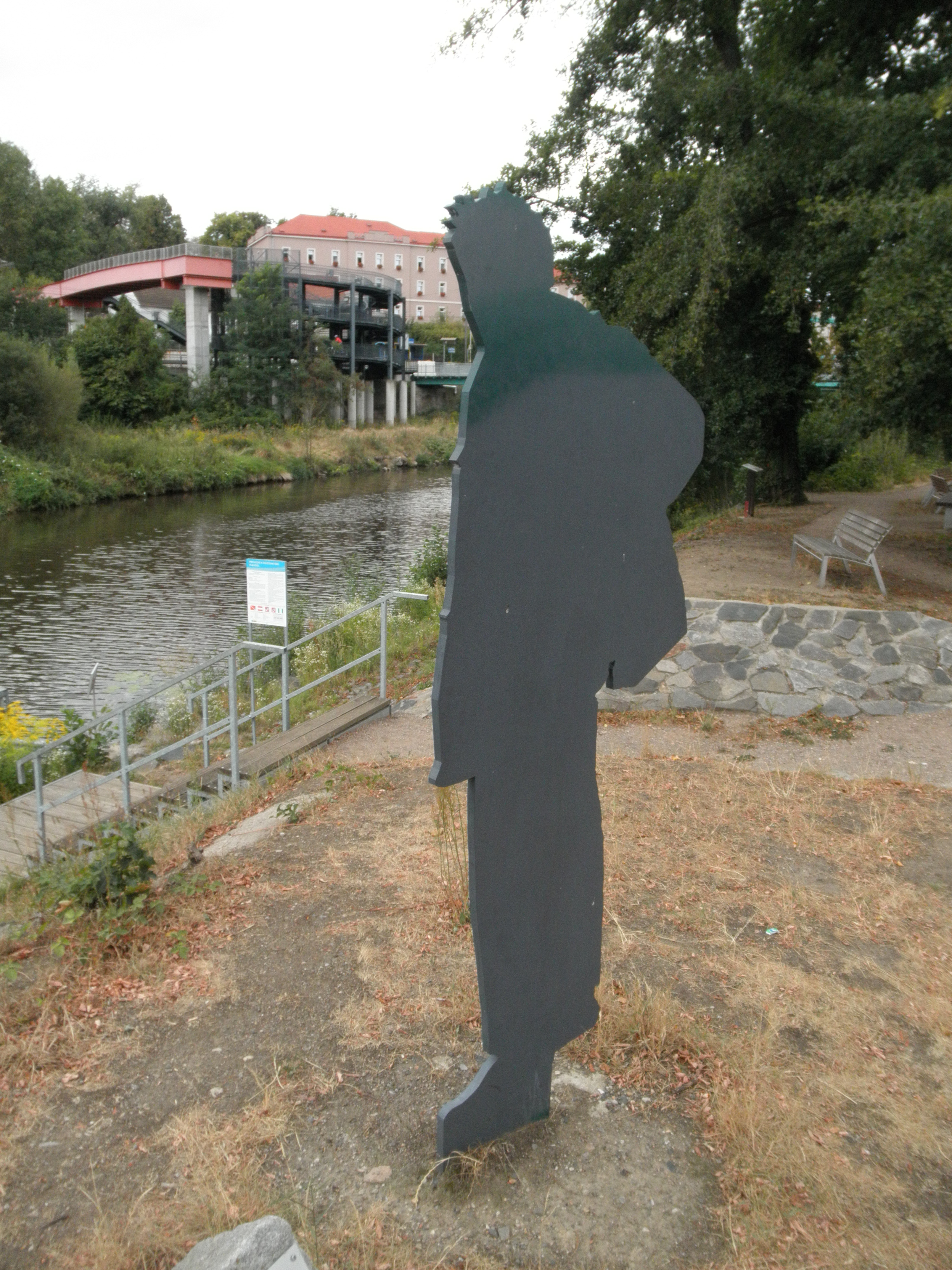 Sculpture / statue of the outline of the Czech photographer Josef Sudek at Kmochův ostrov island in Kolín. The memorial was made in 2016 based on the 1922 photo by Jaromír Funke.